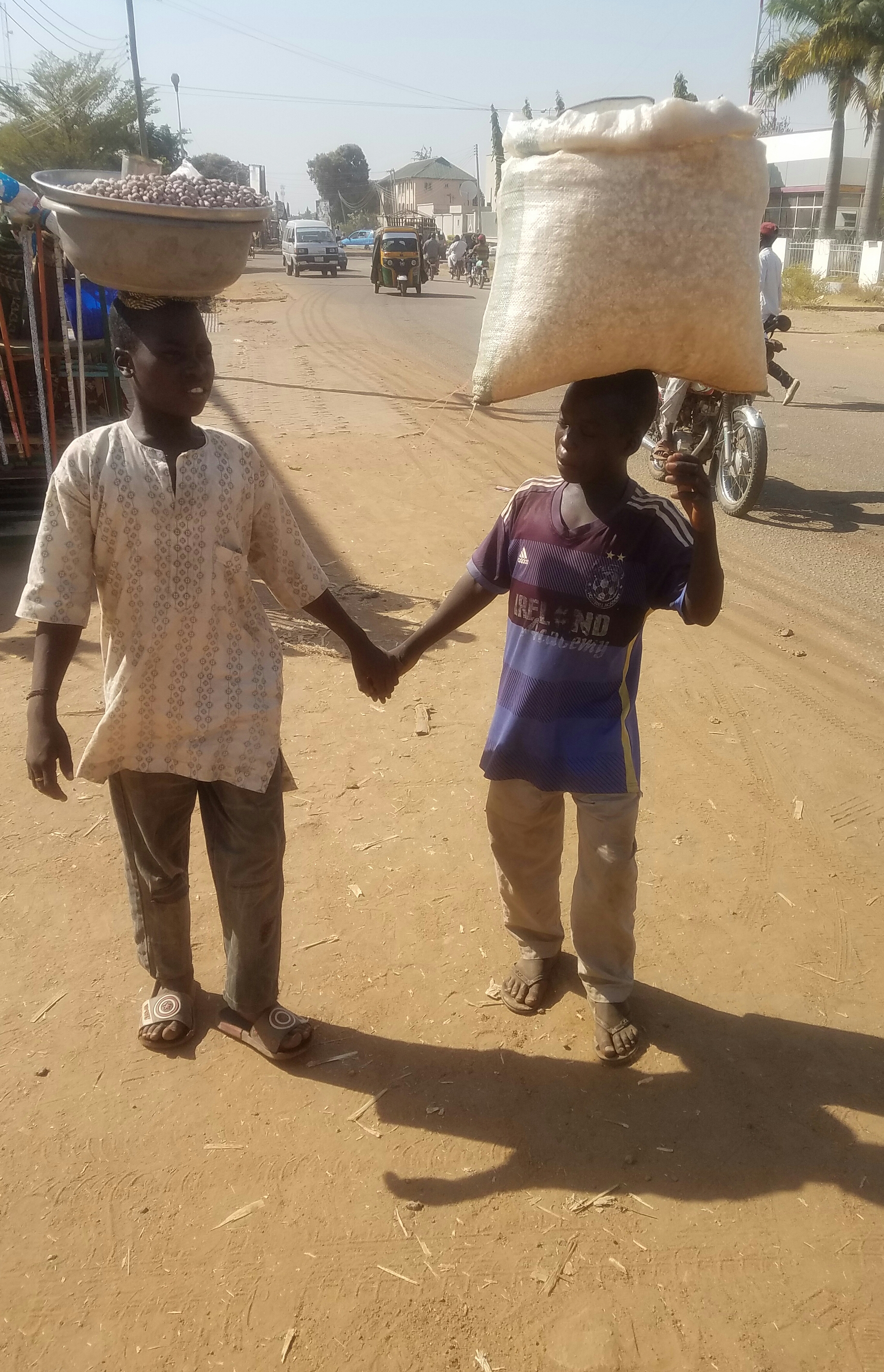 Two young boys hawking a local snack(popcorn and nuts) under the scorching sun. This is an image of "African people at work" from Nigeria